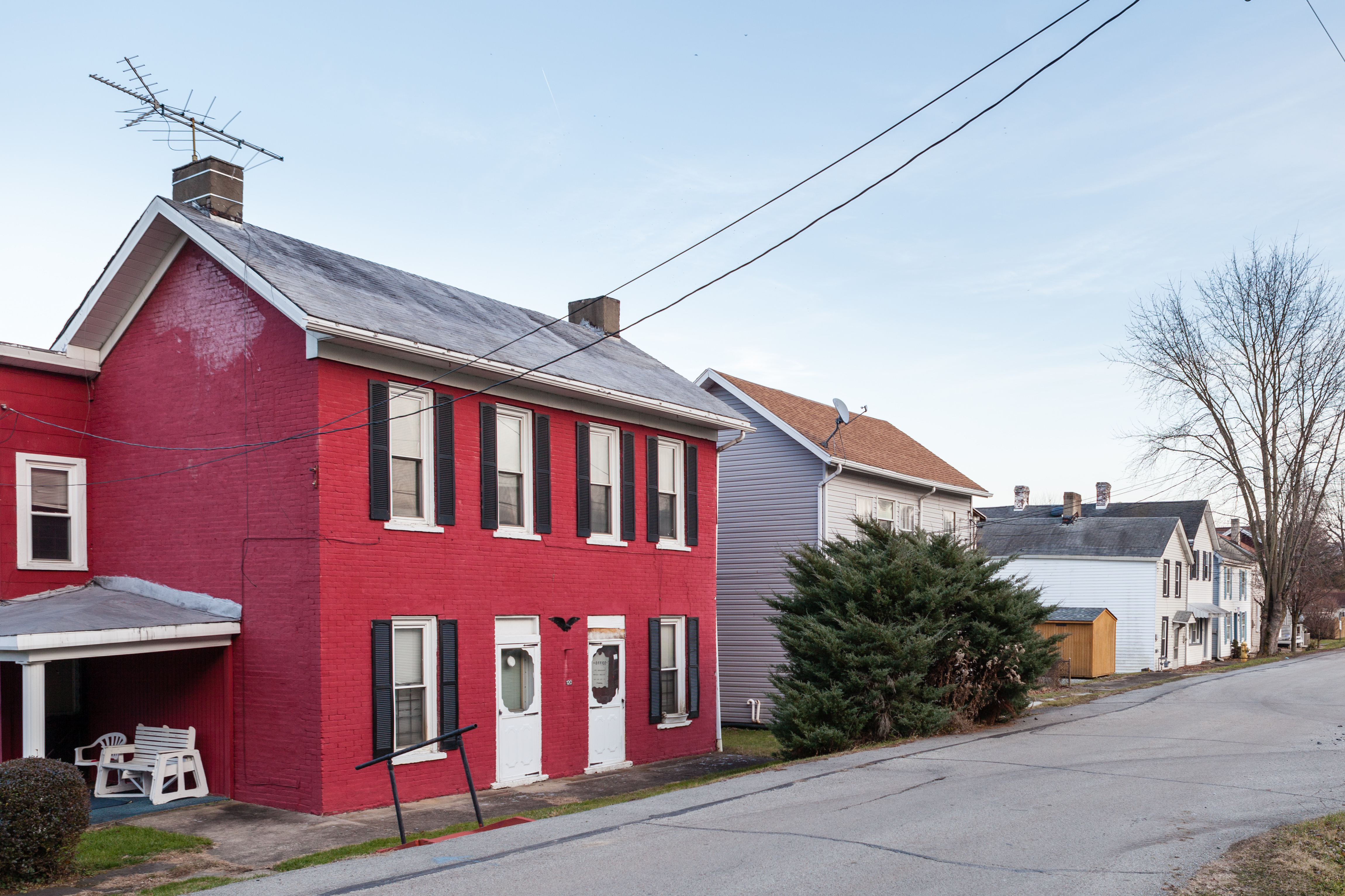 Federal St between Green and Apple, in Coal Center, Pennsylvania. Looking east.